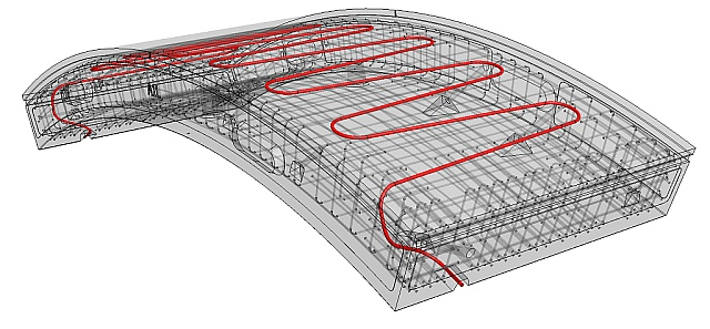 CAD sketch of energy lining segment